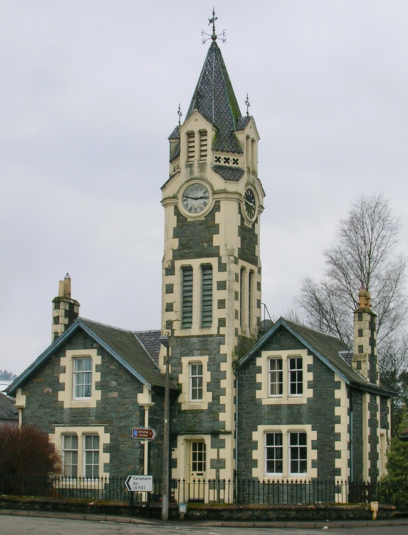 The clock tower at Moniaive, Dumfries & Galloway, Scotland